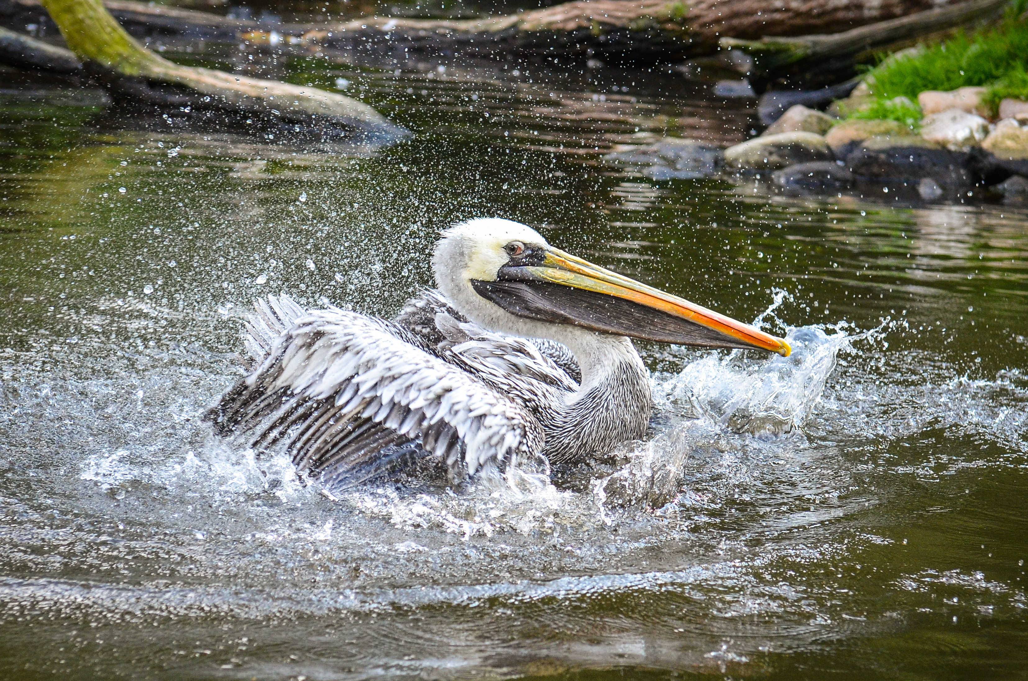 Peruvian Pelican (Pelecanus thagus) at Weltvogelpark Walsrode (Walsrode Bird Park, Germany)